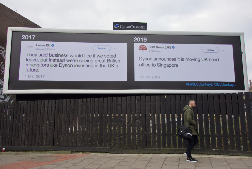 A billboard dessign and paid for by anti-Brexit campaign group Led By Donkeys, showing two statements about Dyson, one from 2017 and one from 2019